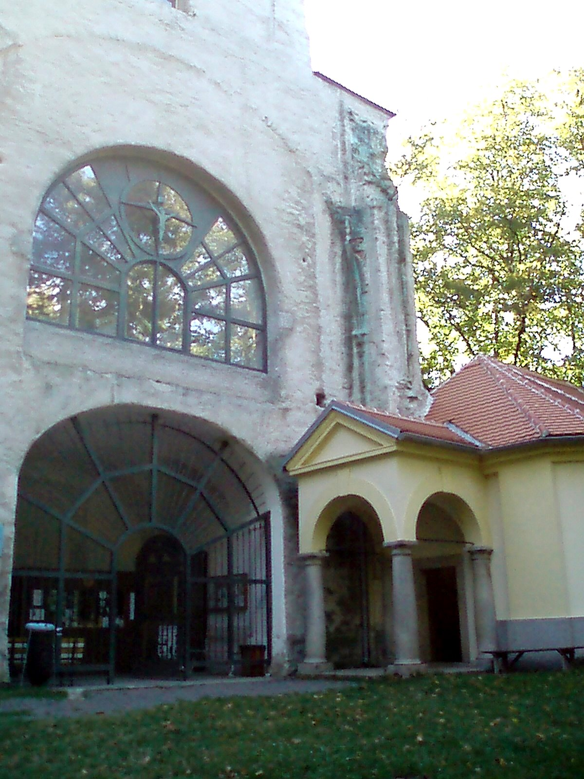 Entrace to Bolfánek tower